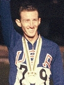 Bob Schul at the 1964 Olympics